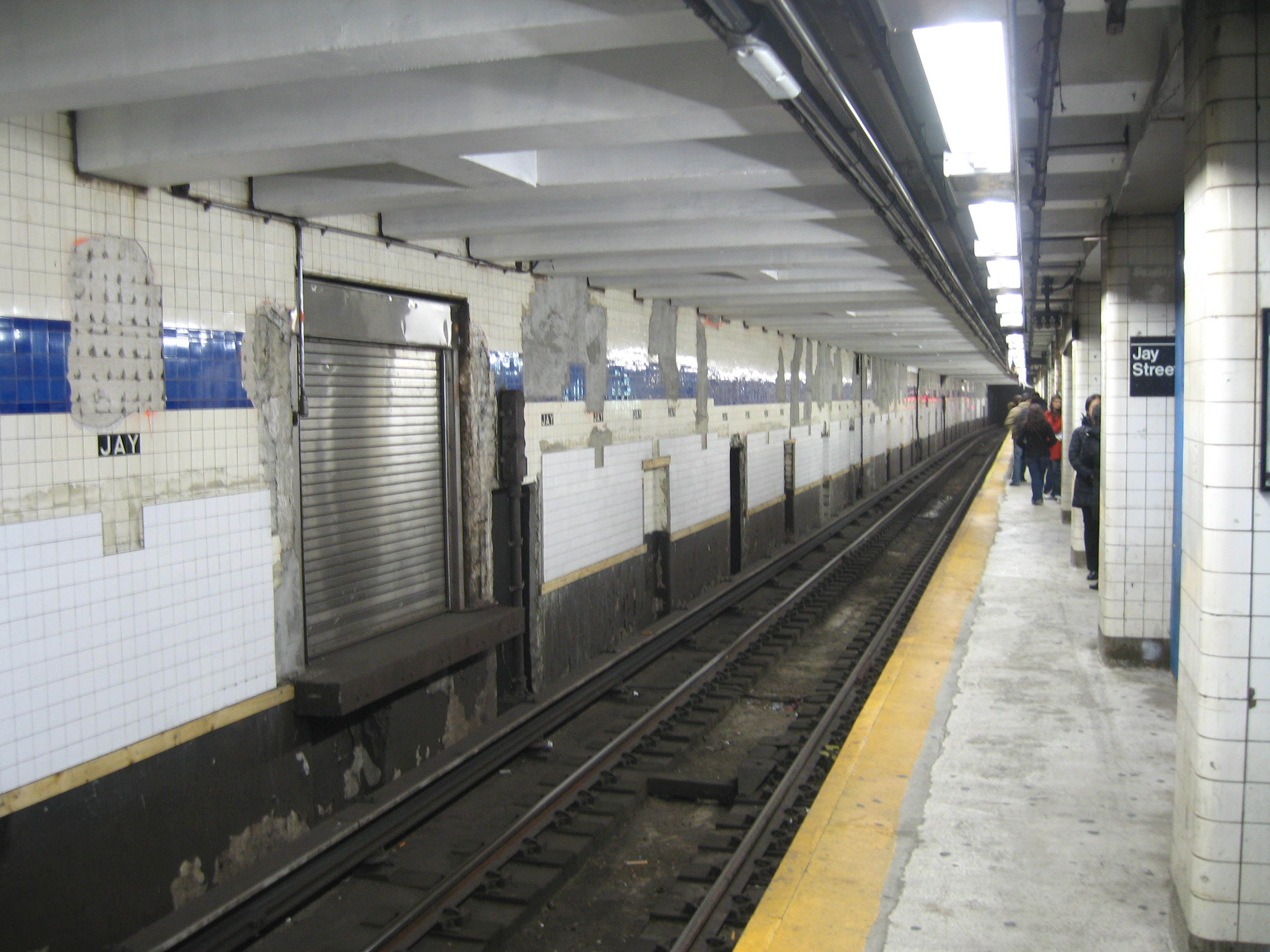 Looking north along southbound platform and across track at Money train door in Jay Street–Borough Hall (New York City Subway).